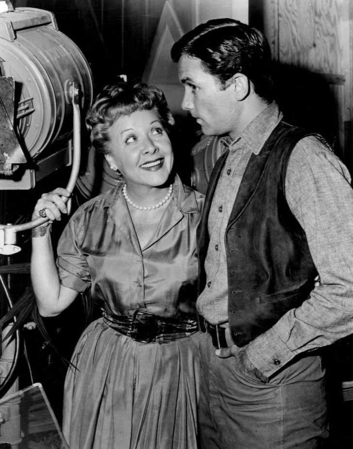 Photo of Vivian Vance and Allen Case as deputy Clay McCord on the set of the television program The Deputy. Vance was a guest star for this episode.